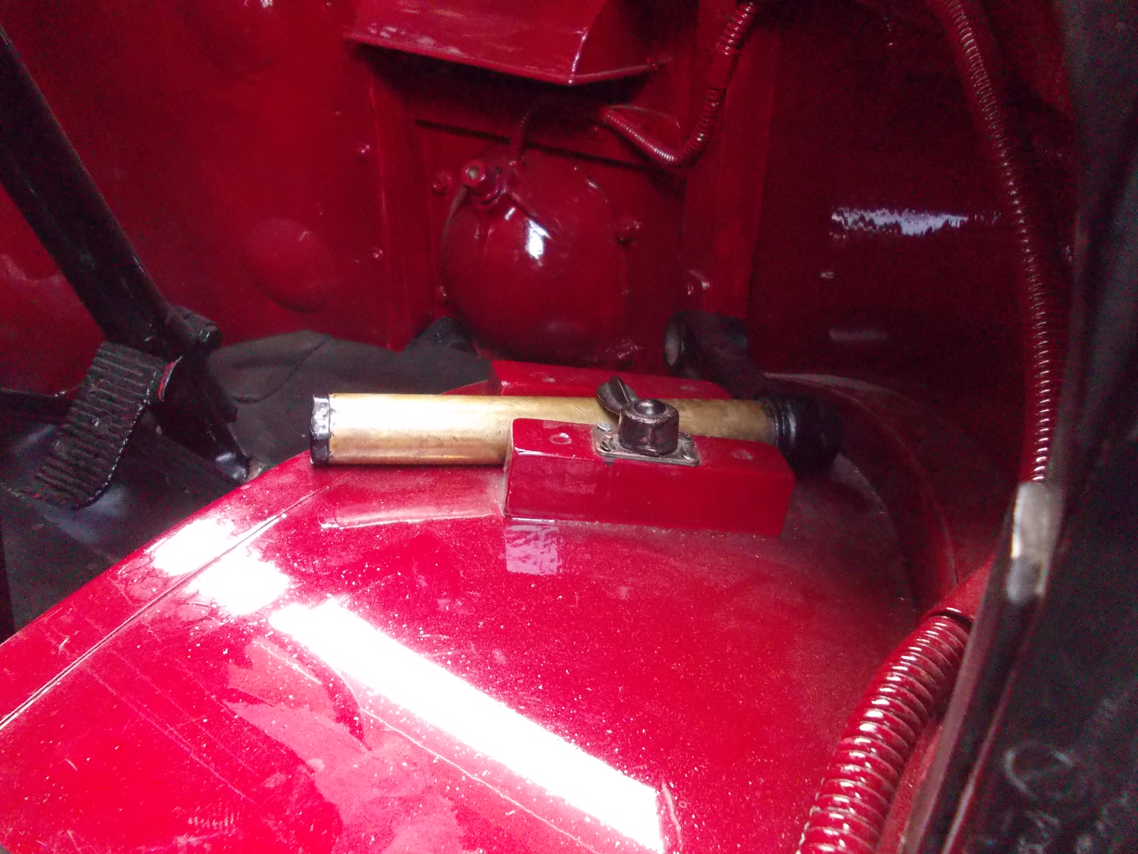 Stored in the cab of the Renown